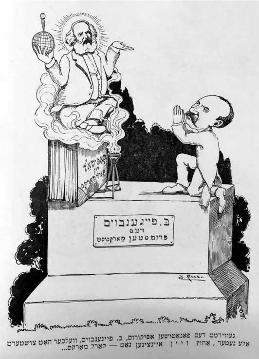 Benjamin Feigenbaum was a famous Yiddish atheist and is depicted by illustrator Saul Raskin as bowing to Karl Marx. The stone caption says "B. Feigenbaum, the most observant Marxist" and caption below says "Dedicated to extremist, blasphemous B. Feigenbaum, who rejects all gods except his own, Karl Marx."